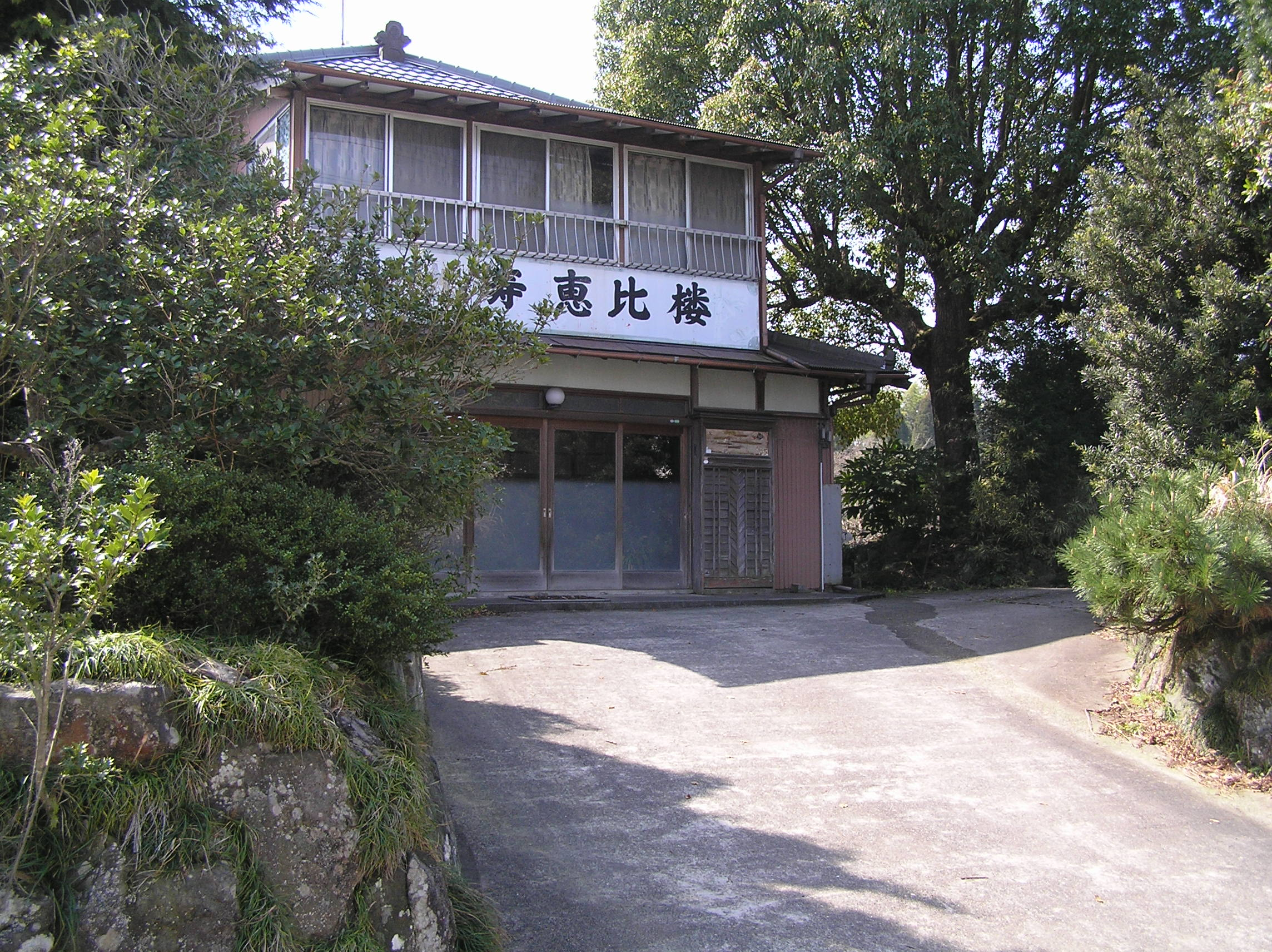 Hi Kei Hitoshi tower inn.jpg ～photo by Autumn Snake 【おぉたむすねィく探検隊】